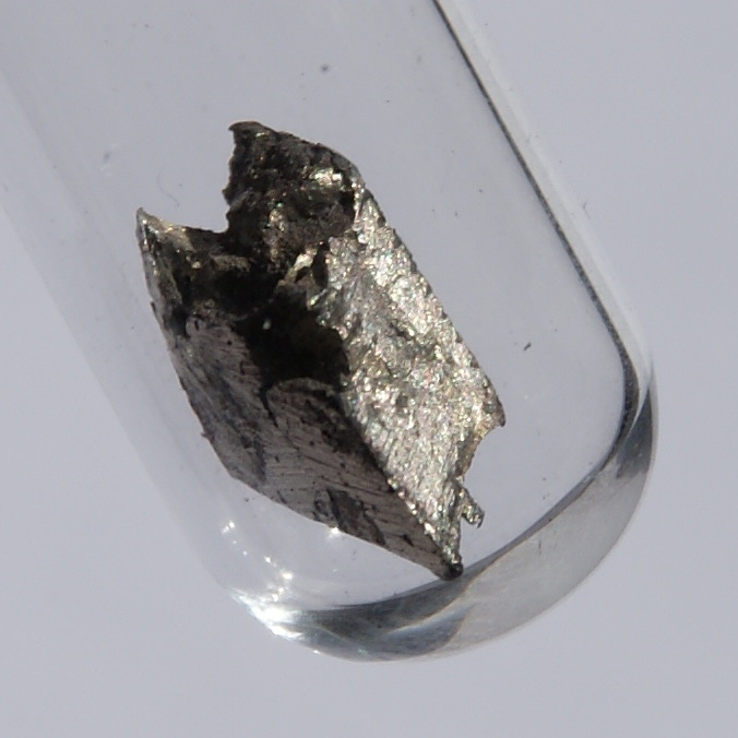 Cerium, 1.5 grams, 1 cm.